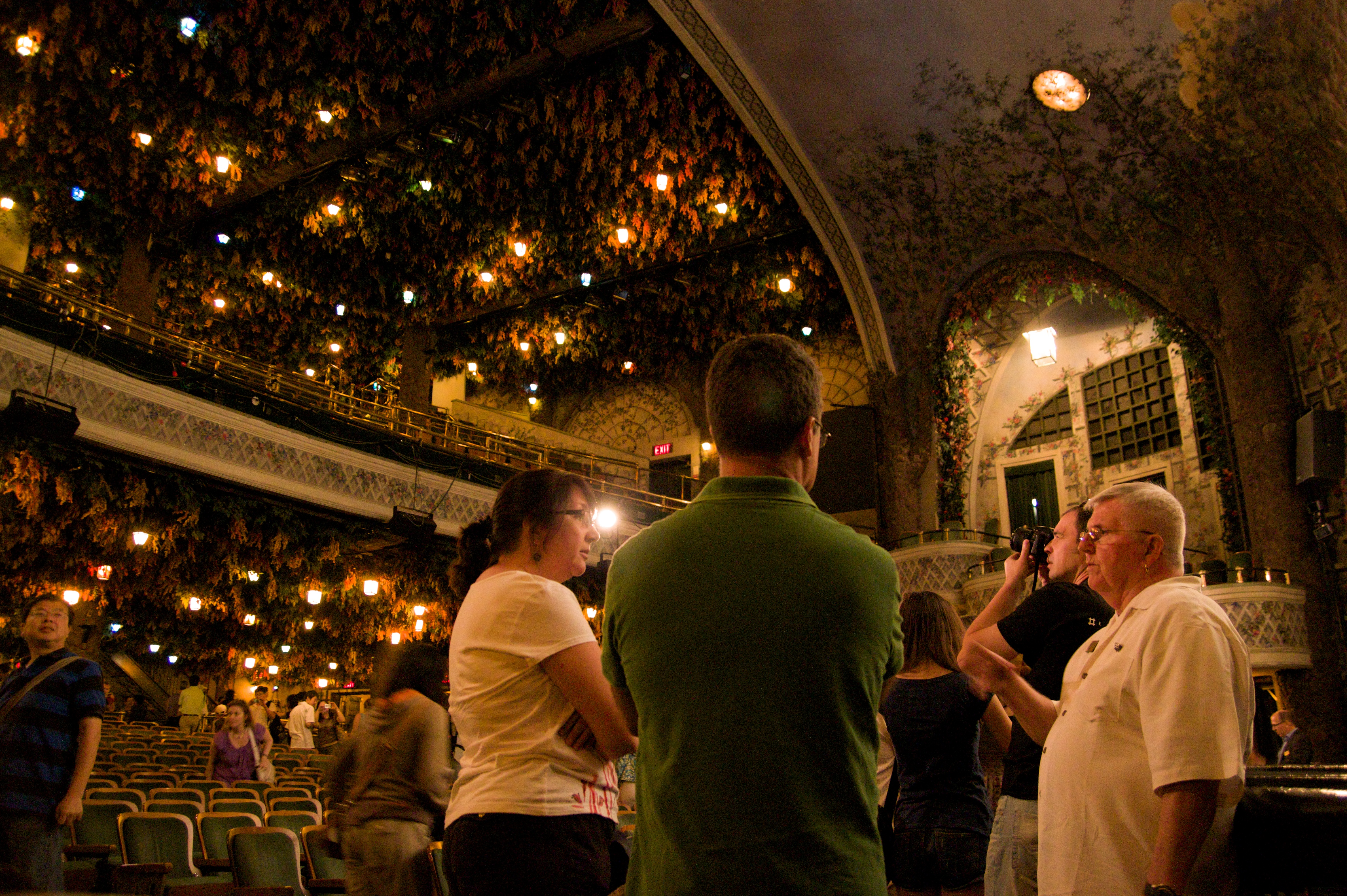 Winter Garden Theatre in Toronto during doors open 2010. absolutely incredible venue.